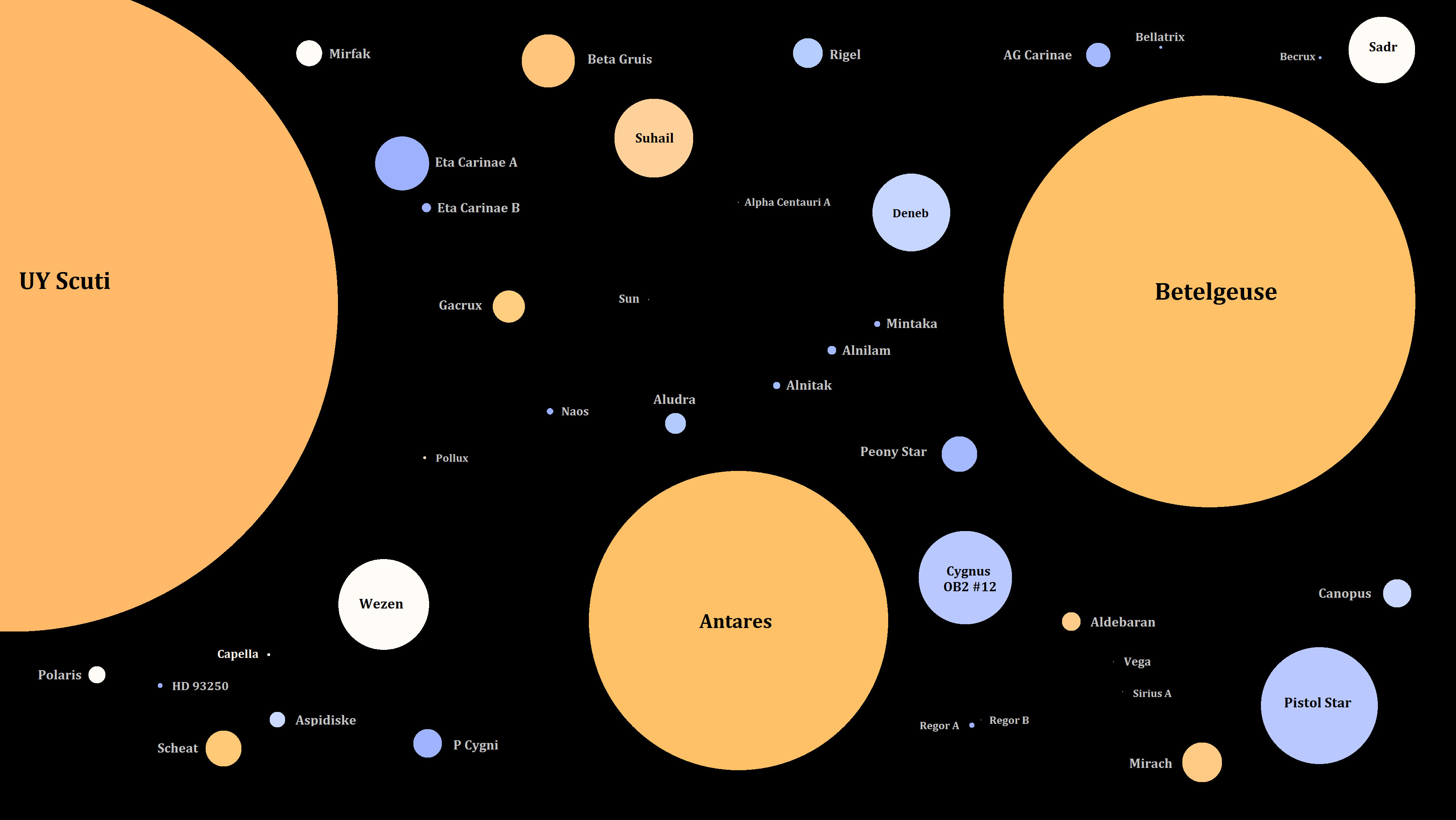 Some of the well-known stars are shown with their apparent color and relative size.